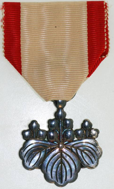 Order of the Rising Sun class 8